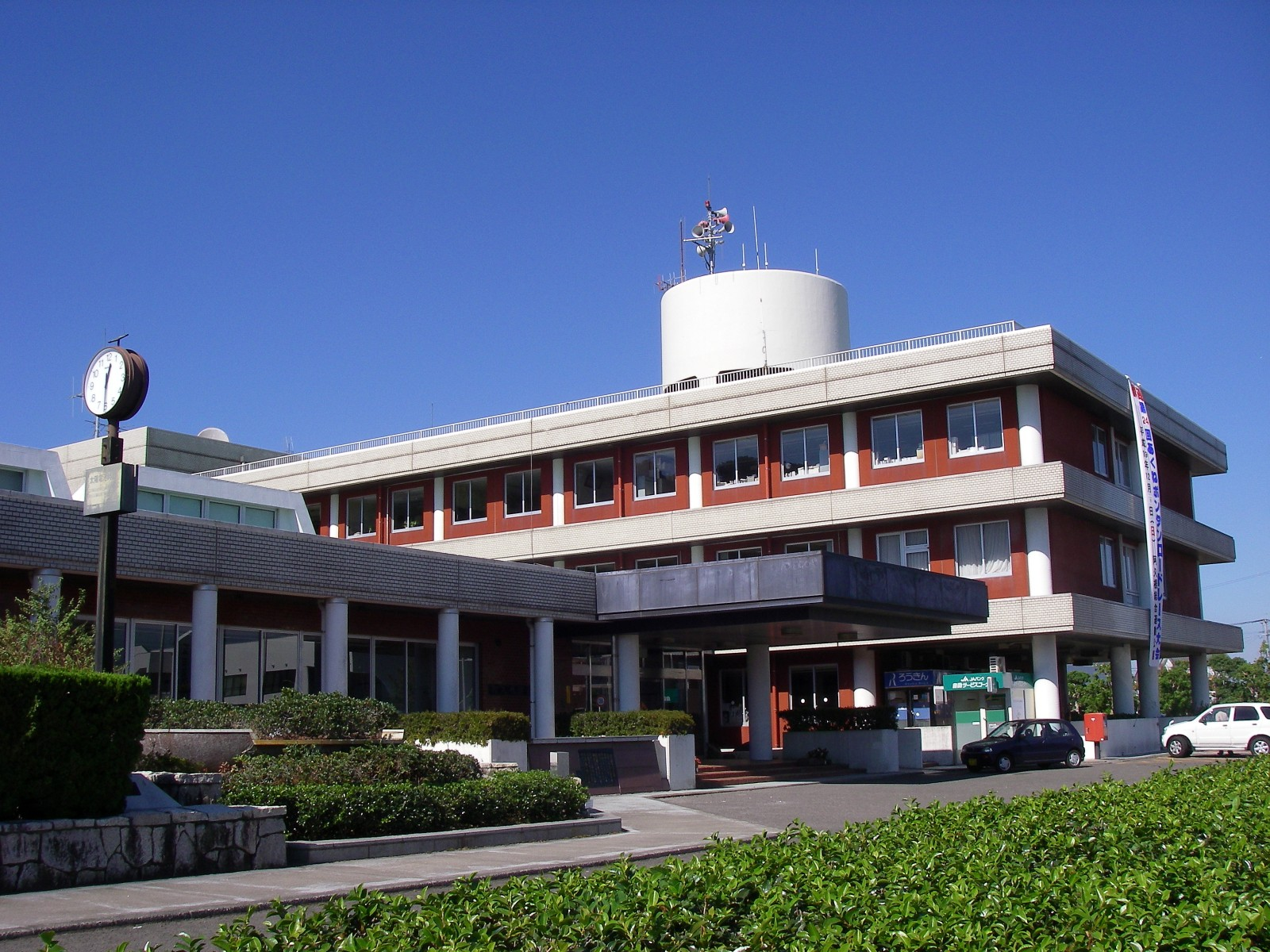 City Office, Akune, Kagoshima, Japan